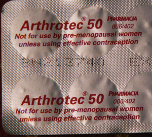 Arthrotec50 combined diclofenac sodium (50mg) and misoprostol (200 microgrammes) by Pharmacia.